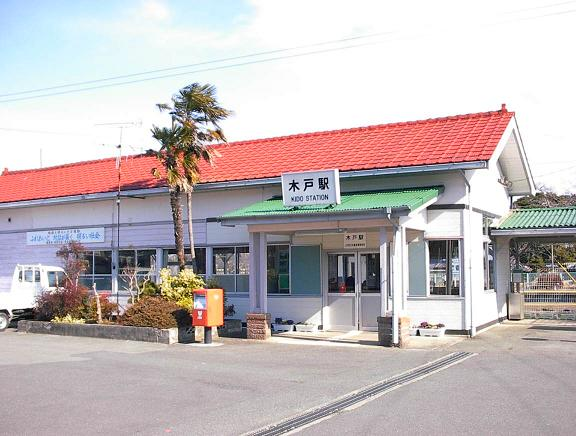 Kido Station on Joban Line